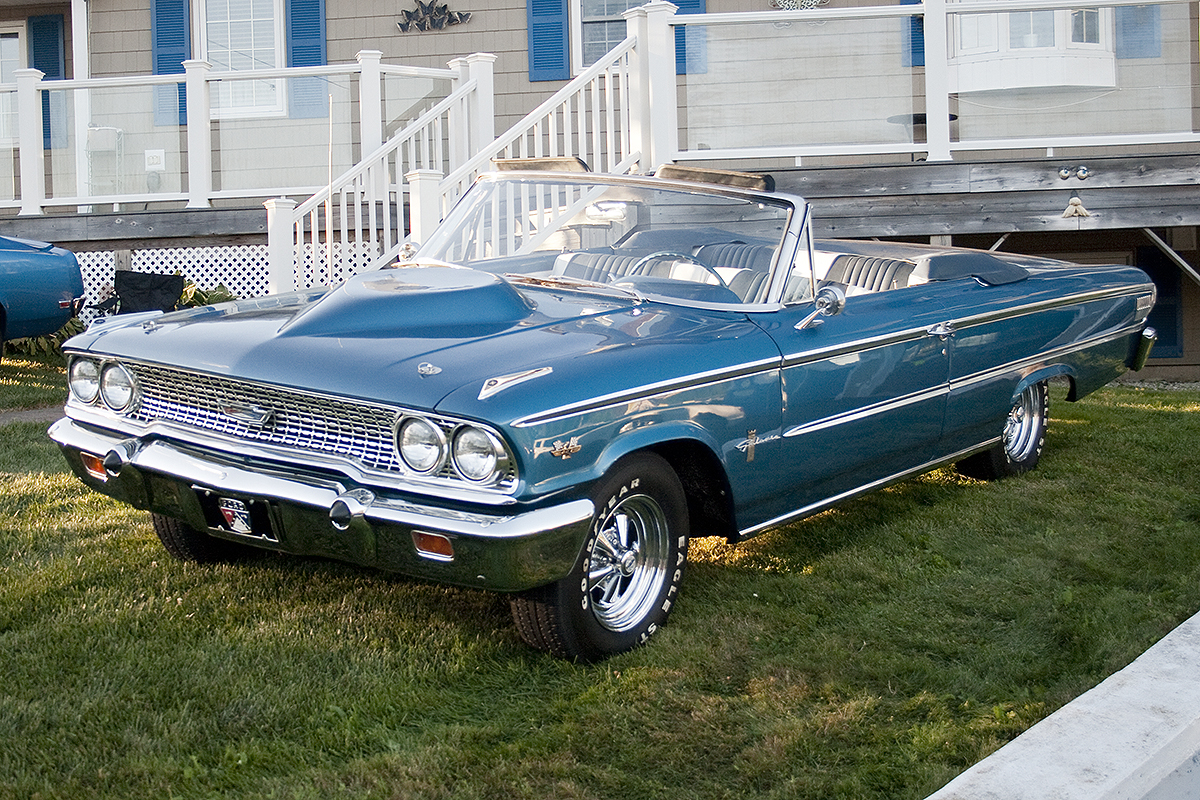 1963 Ford Galaxie 427 with Thunderbolt style blister hood.